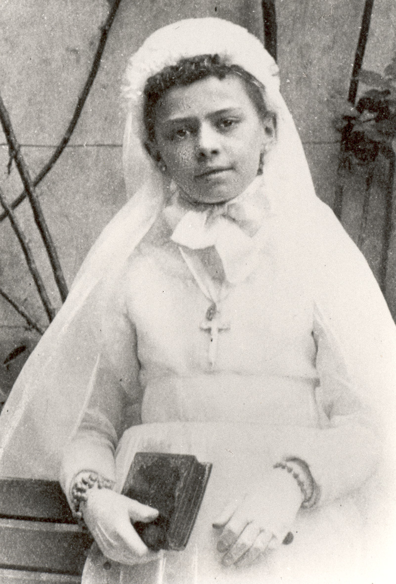 Picture taken of Elisabeth of the Trinity on the occasion of her first communion